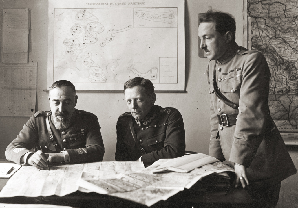 Louis Faury, Franciszek Kleeberg and Mjr Pillegand, Wyższa Szkoła Wojenna (Military High School of General Staff), Warsaw 1926